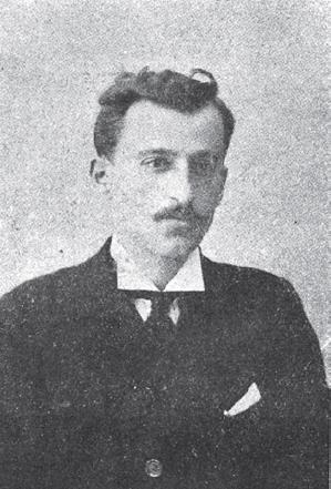 Portrait of Georgi Bogdanov, member of IMARO and the terrorist group of the "Gemedjias", who blow up Thessaloniki in 1903.